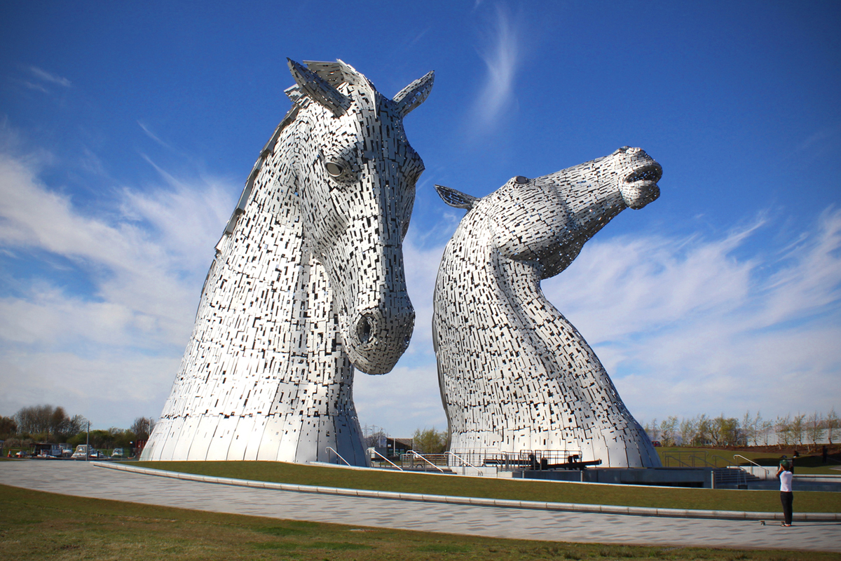 The Kelpies are two colossal steel horses heads alongside the Forth and Clyde canal with the backdrop of the Ochil Hills of central Scotland. The artworks were inspired by the prominent role heavy horses played in the industrial heritage of the local area and the canals.